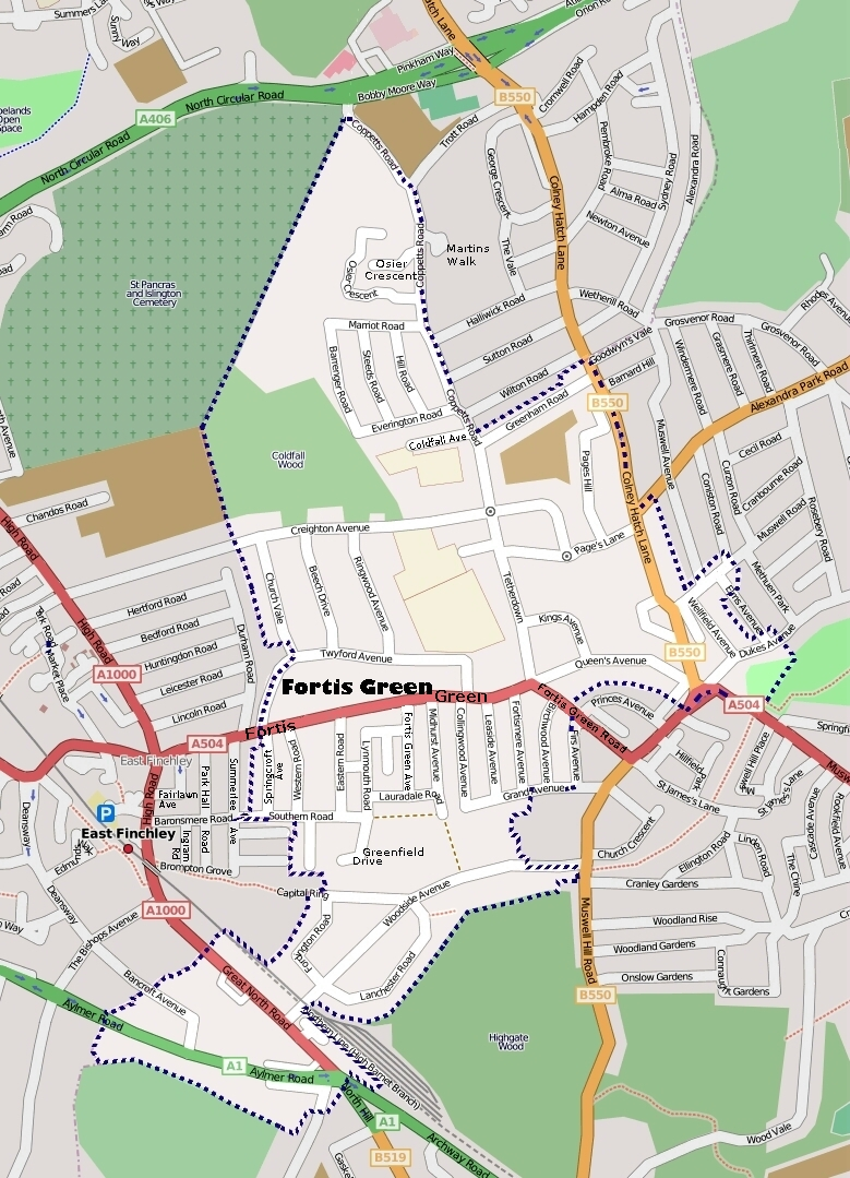 A map of Fortis Green Ward in north London. The original map is by Open Street Map and has been much modified with shading and additional road names added. Open Street Map is a wiki map which states on their web site "OpenStreetMap allows you to view, edit and use geographical data in a collaborative way from anywhere on Earth."